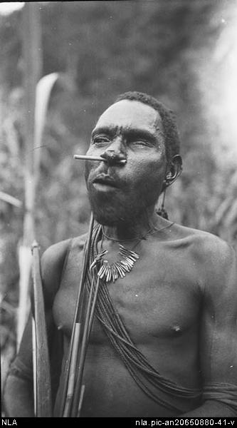 Kukukuku (Angu) native with weapons, head of Tauri River, March-April 1931.